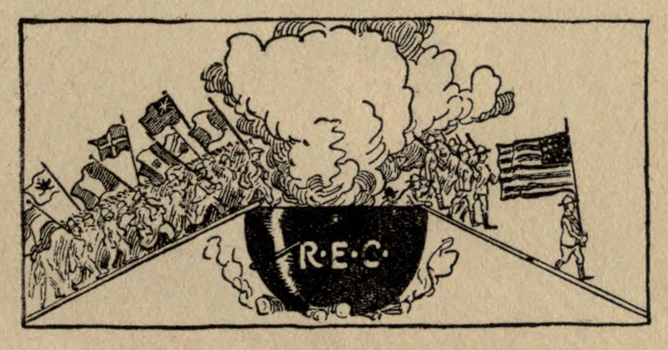 This image is the frontispiece from the training manual for the Recruit Educational Center at Camp Upton.